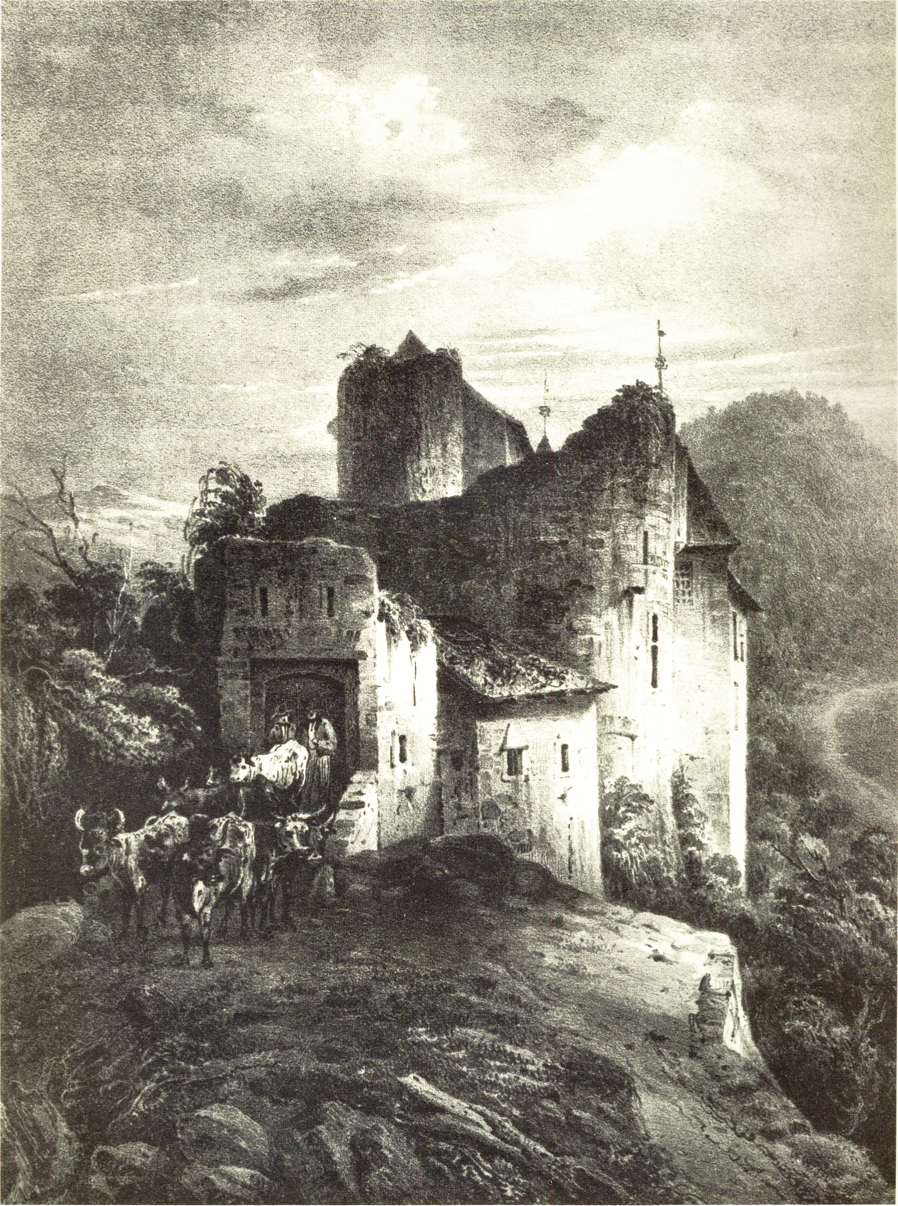 Castle of Schüttbourg, Luxembourg. Drawing.